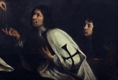 Detail of a painting of Our Lady of the Rosary. The Virgin Mary present the rosary to Saint Dominic (not visible here), who passes it on to Edmund Gottfried von Bocholtz, commander of the Teutonic Order at Alden Biesen/Nieuwen Biesen. Behind him his protegé, Otto Edmond von Rochow. Painted by Waltère Damery around 1660-65. Now on display in Alden Biesen Castle, Belgium, on loan from the Musées Royaux des Beaux-Arts de Belgique in Brussels.